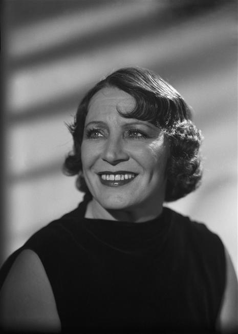 Studio photo